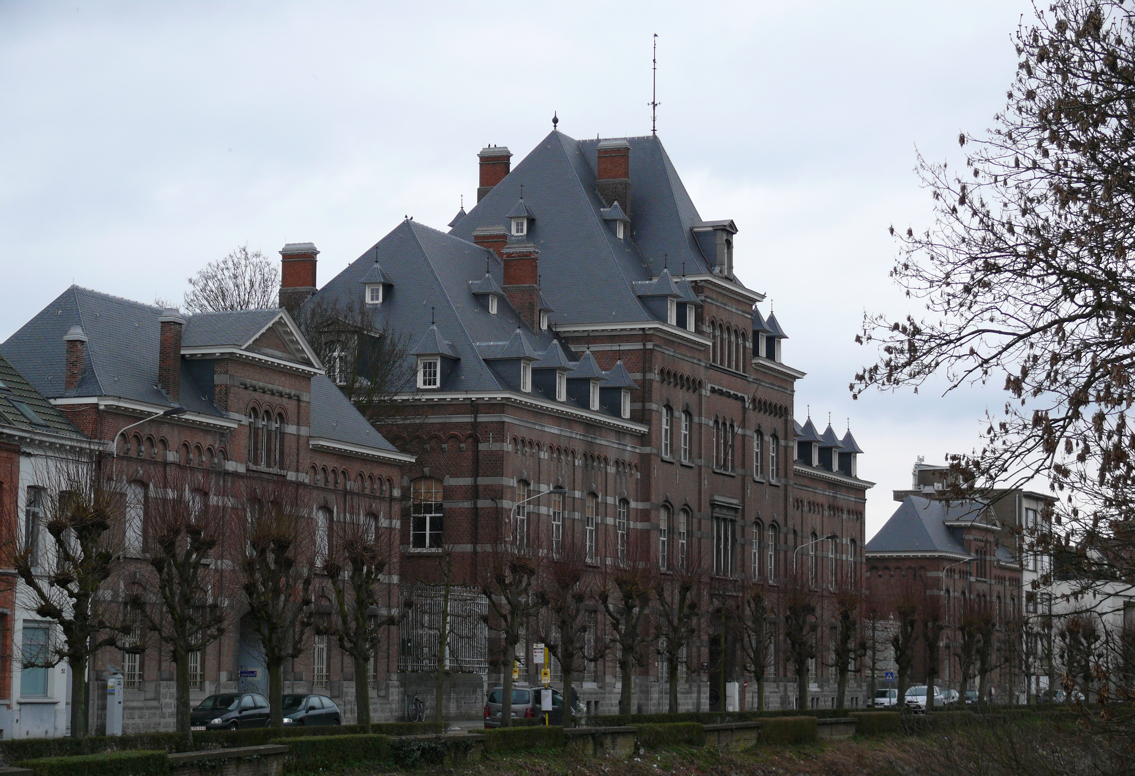 The former barracks Dungelhoeff at the Baron Opsomerlaan in Lier, Belgium.